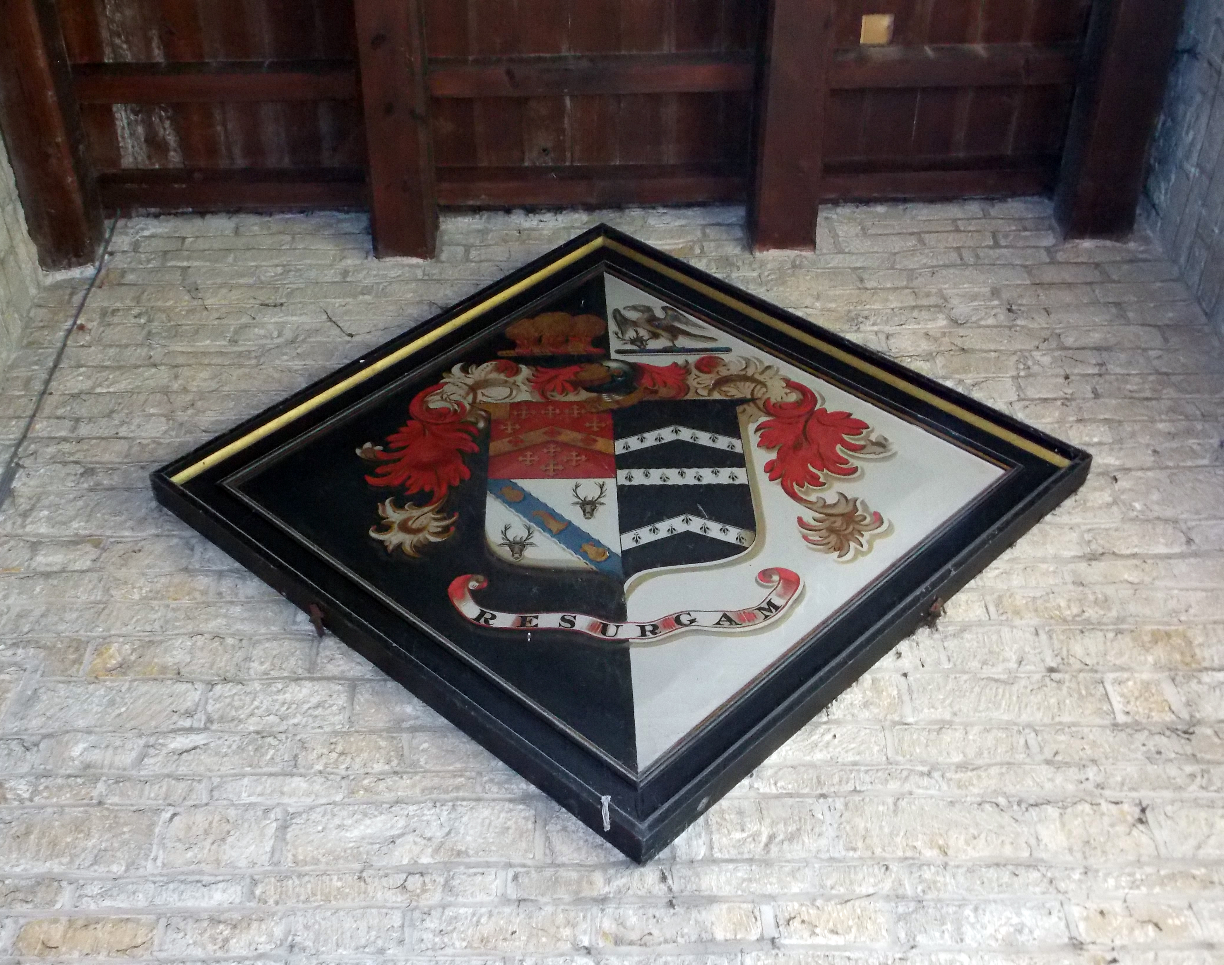 Harlaxton St Mary and St Peter's Church – Tower painted coat of arms funerary hatchment at the south